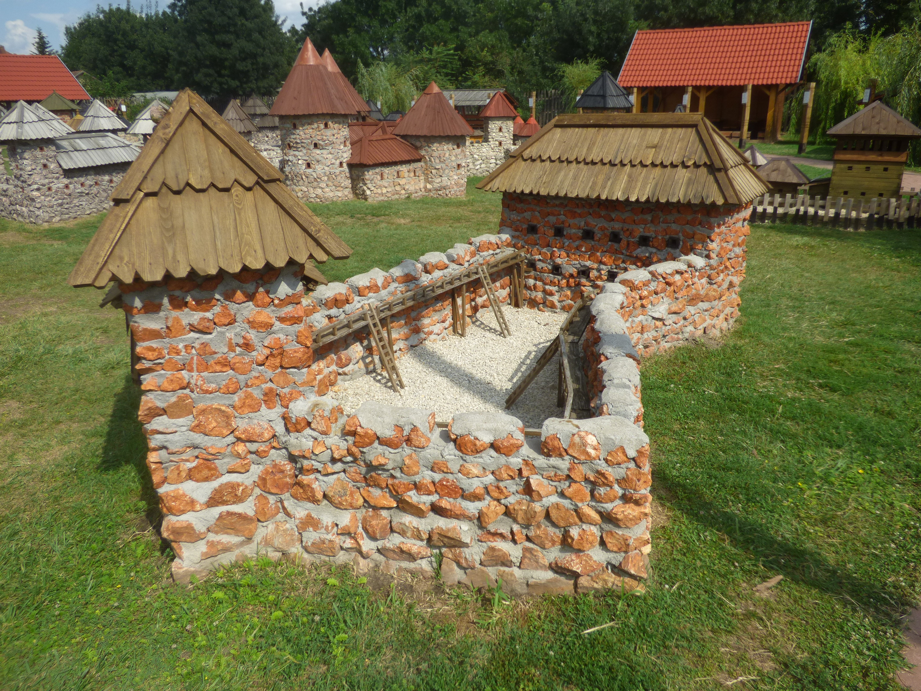 A felvidéki Hőnig várának makettje a dinnyési Várparkban